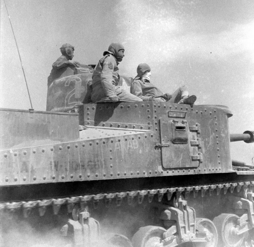 The crew of "ARAB." A US Army M3 Lee tank of the 13th Armored Regiment, 1st Armored Division in El Guettar, Tunisia, 1943.